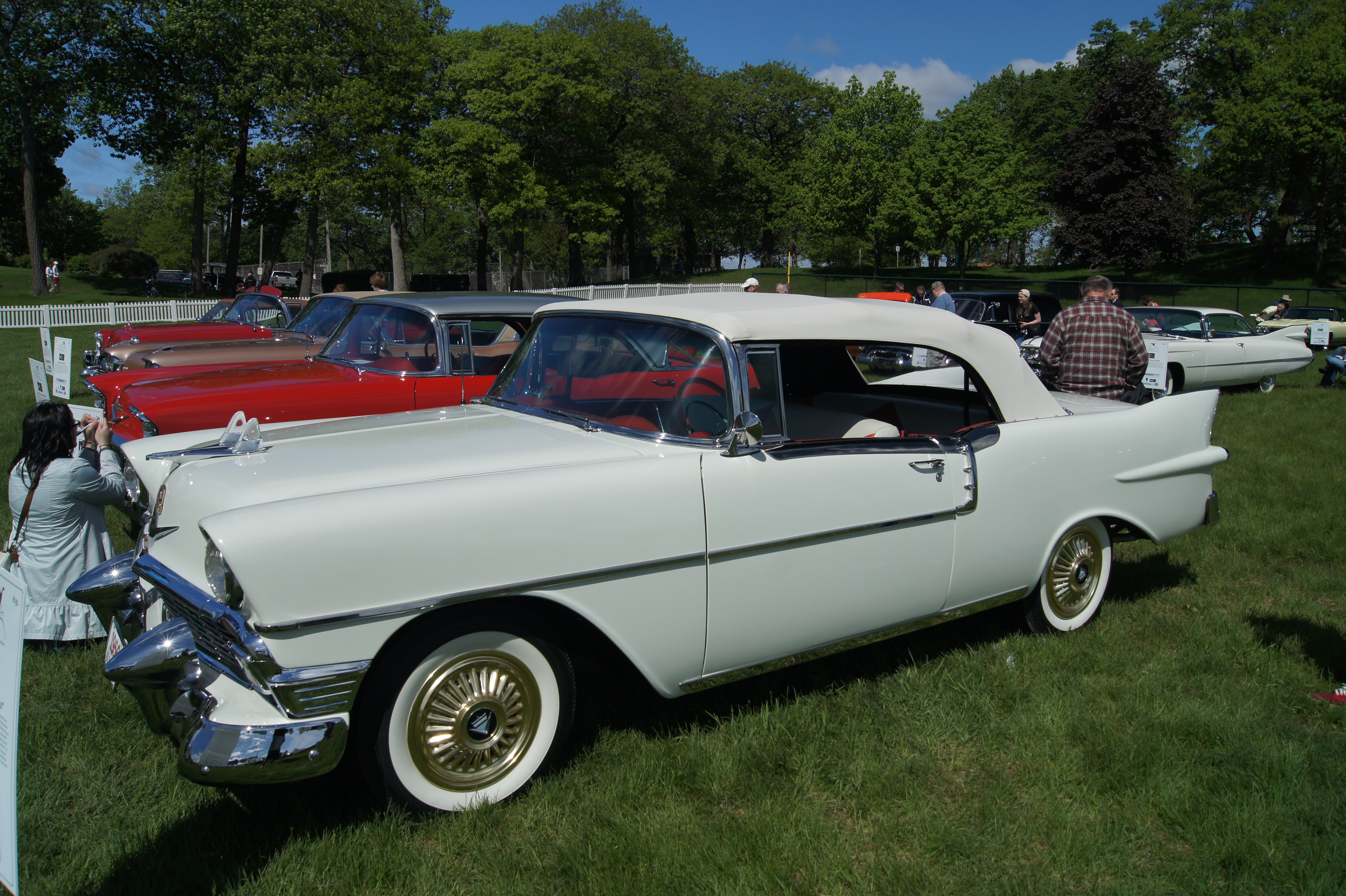 56 Chevrolet El Morocco